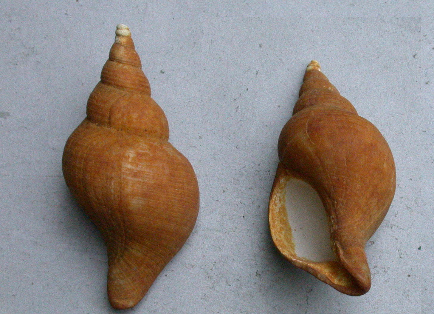 Fossil of Neptunea contraria angulata from the Pliocene era. Red Crag deposits, Essex, England. ca. 2 Ma. 50mm long.